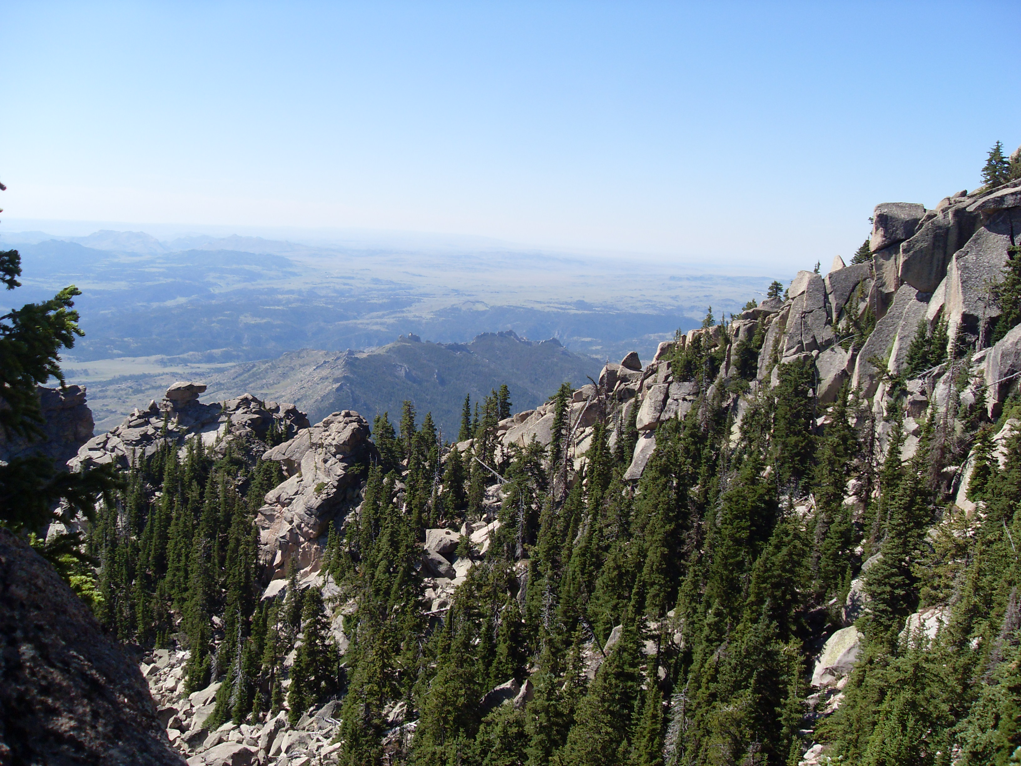 View from Laramie Peak to Glendo State Park